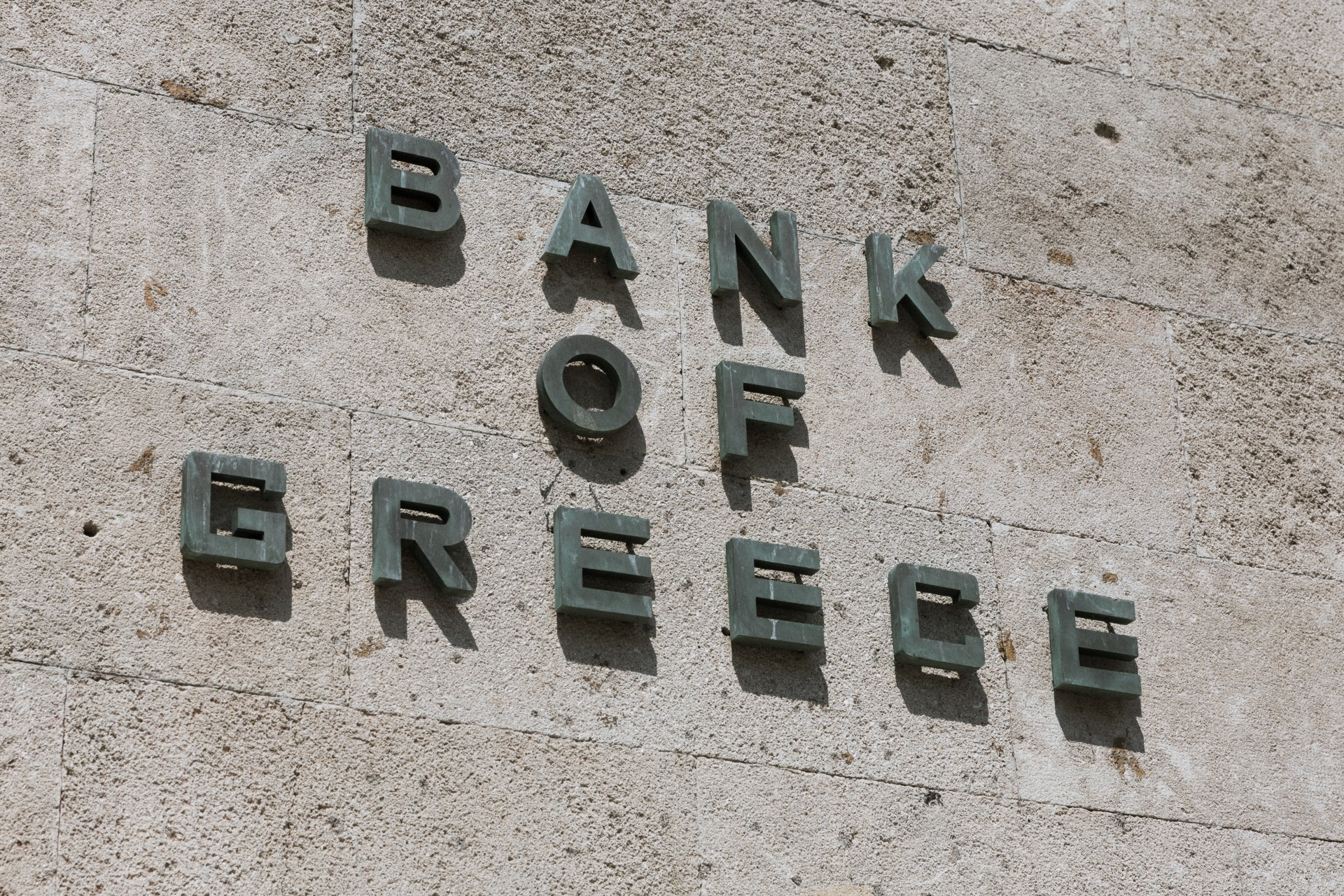 Bank of Greece inscription